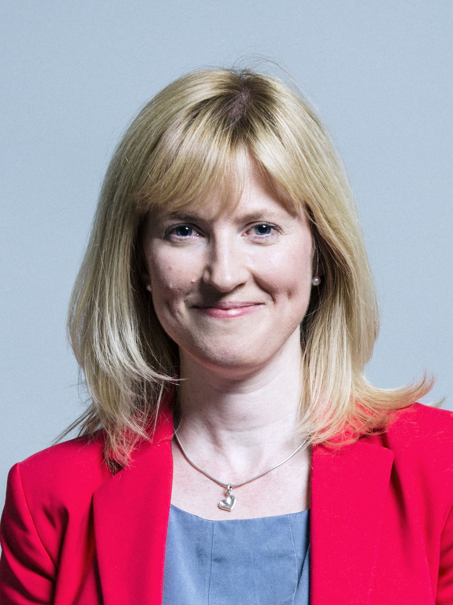 Official portrait of Rosie Duffield